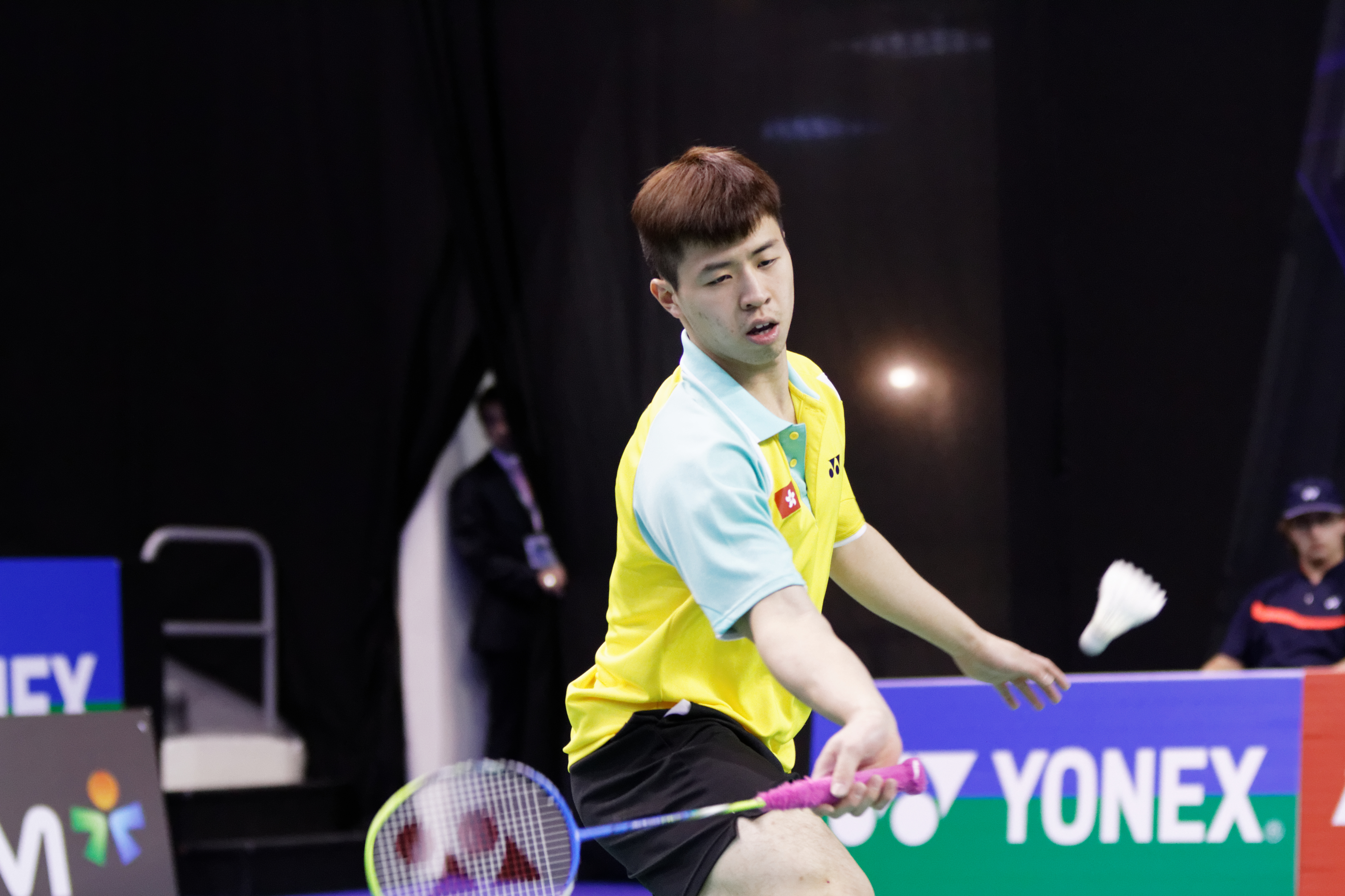 2013 French open. Mixed's doubles eightfinal. Lee Hei-chun - Chau Hoi Wah vs Xu Chen - Ma Jin.